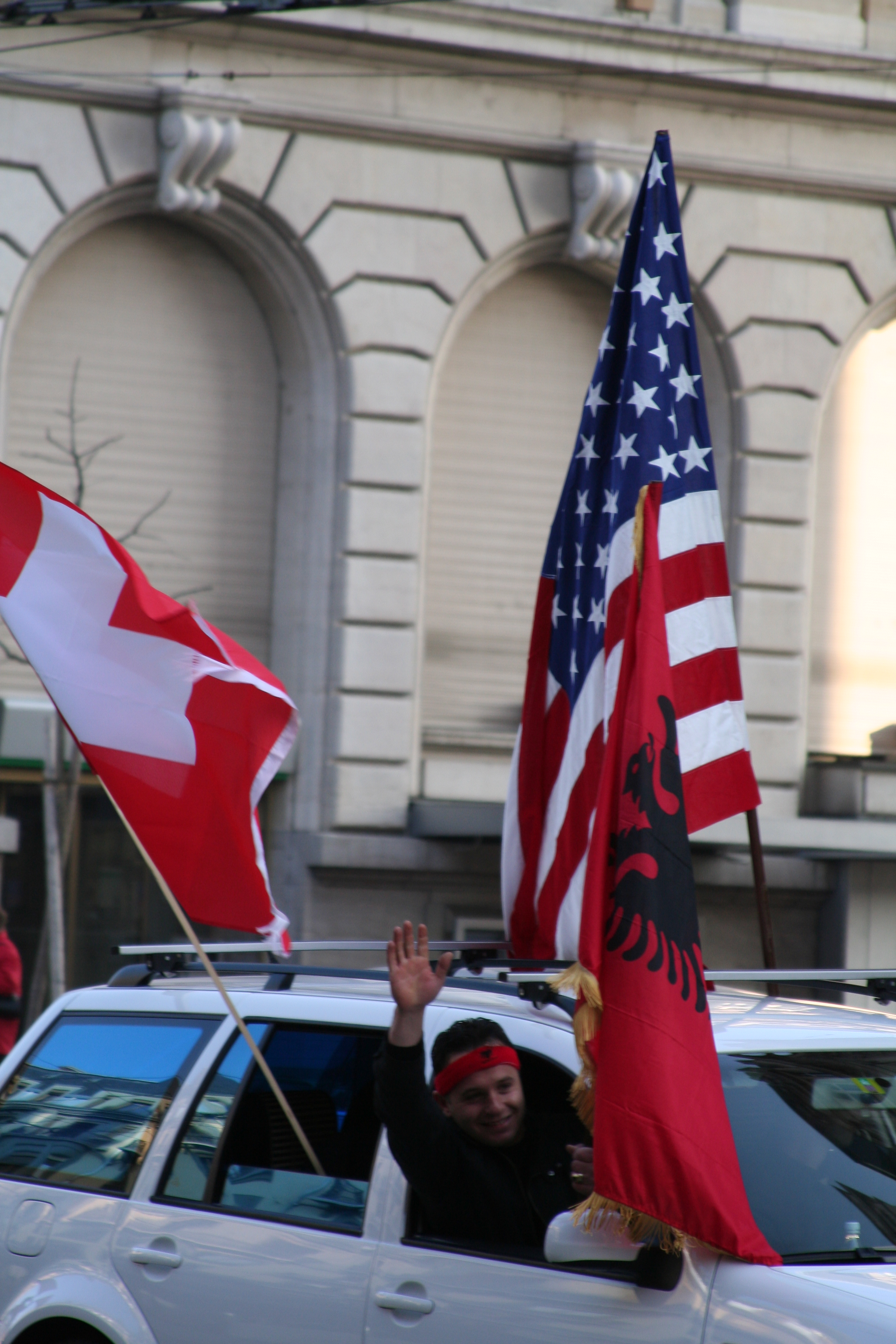 Kosovar's celebrating in Switzerland with USA, Swiss and Kosovan flags